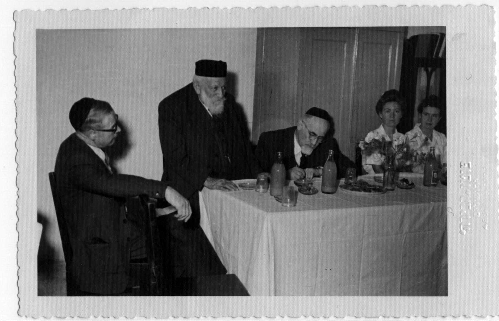 Graduation ceremony of the professional nursing class at Shaare Zedek Hospital. Standing: Dr. Moshe Wallach, hospital founder. Seated to Dr. Wallach's left is Dr. Schlesinger, his successor as hospital director. Photo taken in Jerusalem, circa 1954